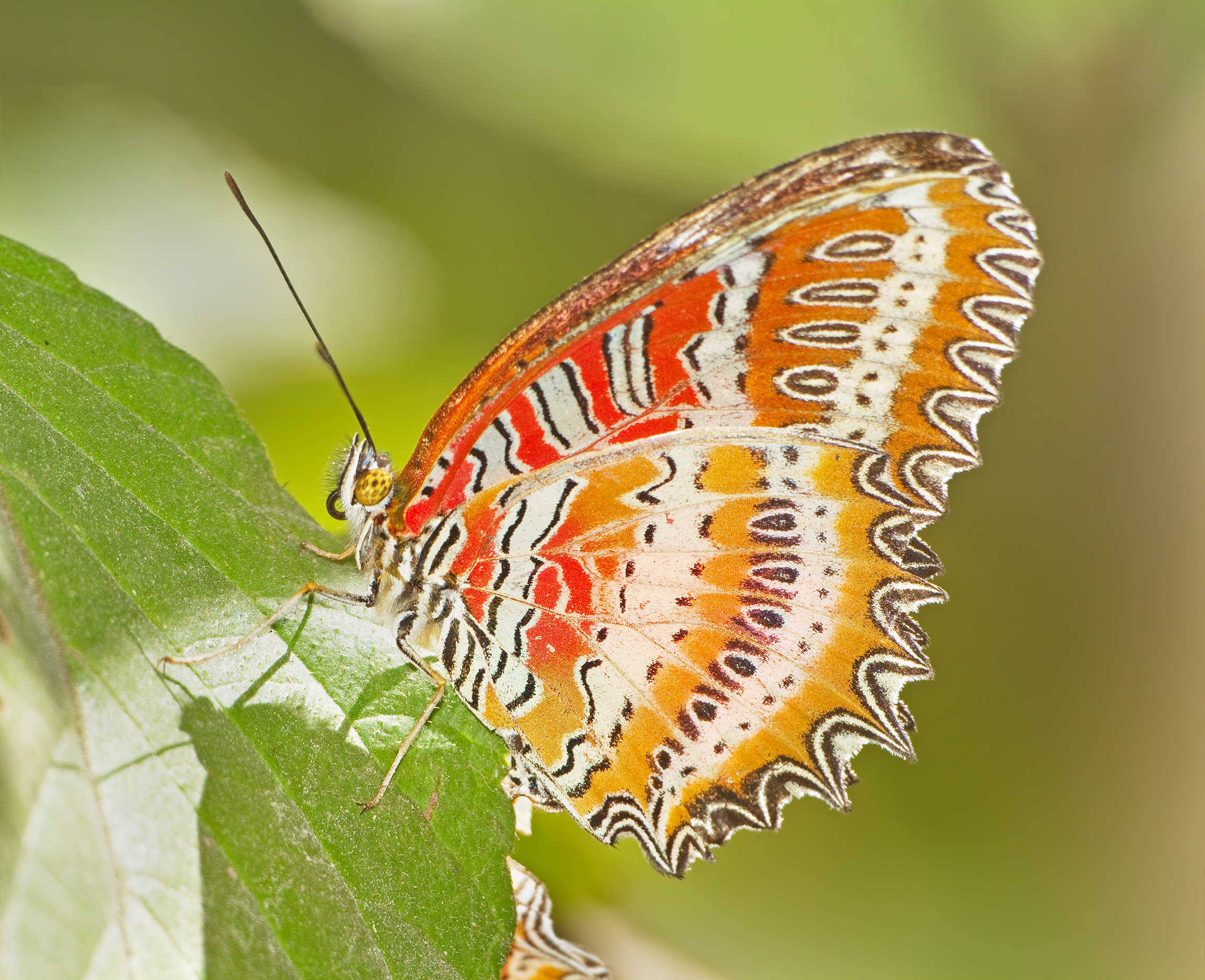 Cethosia biblis, Doi Inthanon National Park, Ban Luang, Chiang Mai, Thailand